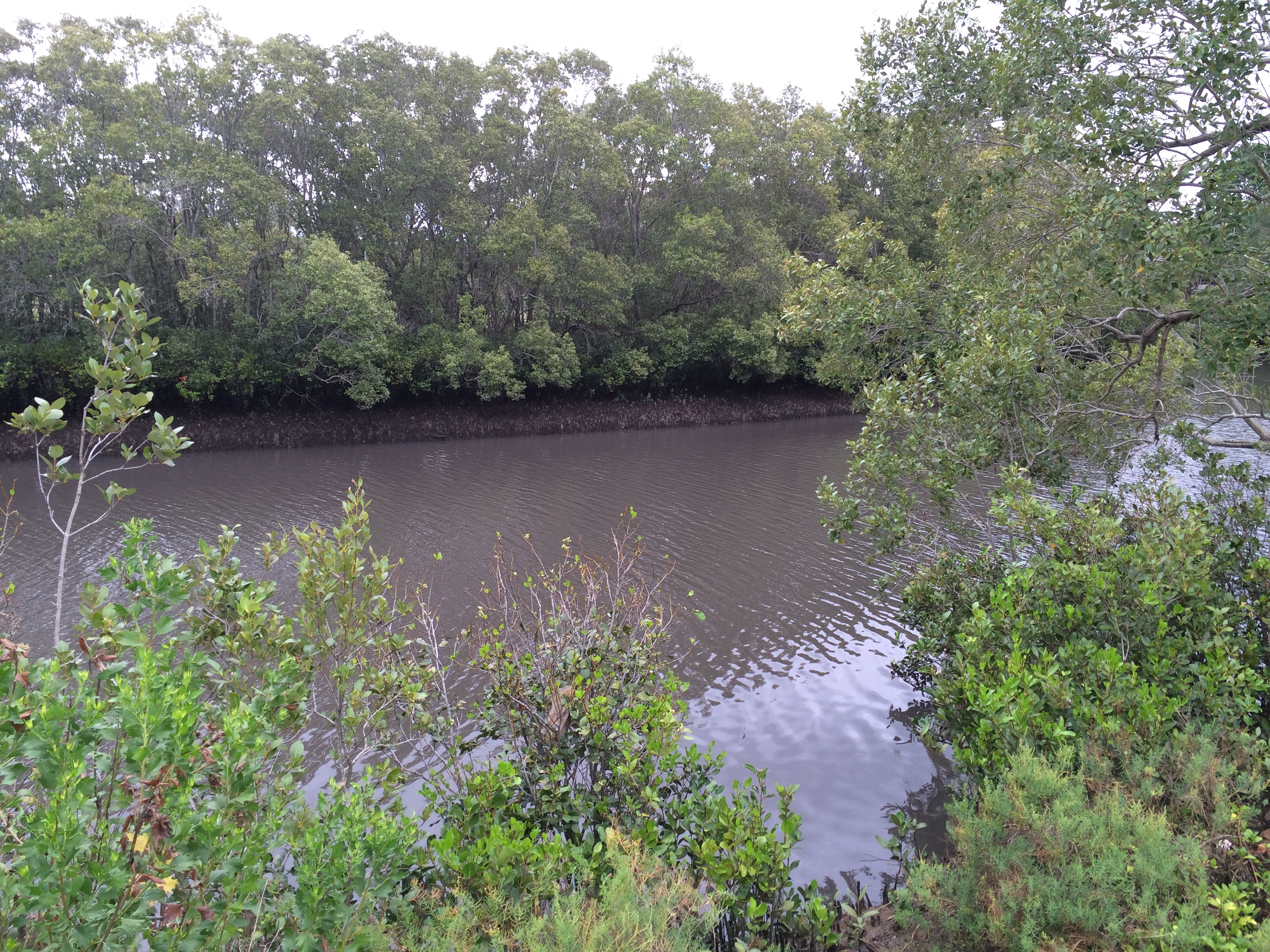 Norman Creek at Bodalla Street in Norman Park, with the suburb of East Brisbane visible on the far bank